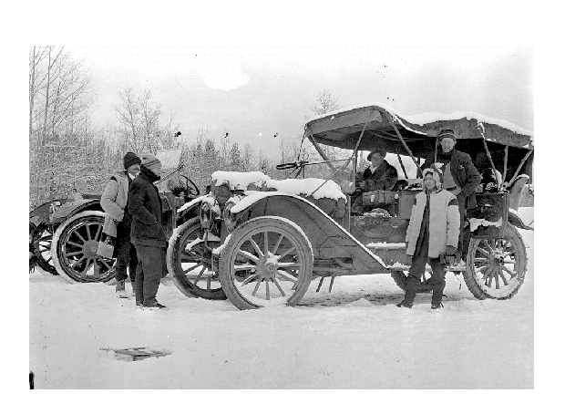 Frank Swannell at 105 Mile House. Photo taken November 28th, 1912.